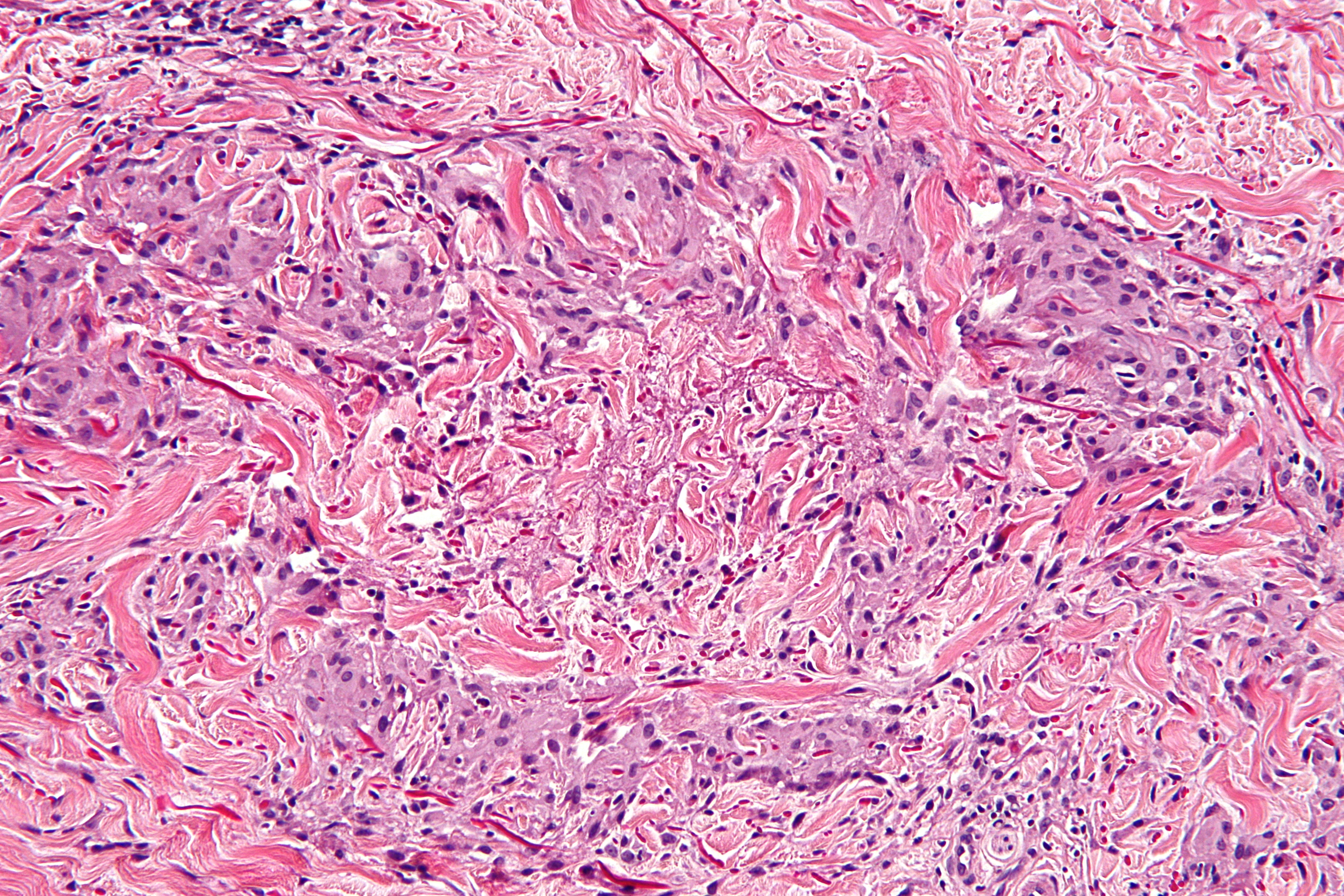 High magnification micrograph of granuloma annulare. H&E stain. Related images Intermed. mag. Intermed. mag. High mag. High mag. Very high mag.